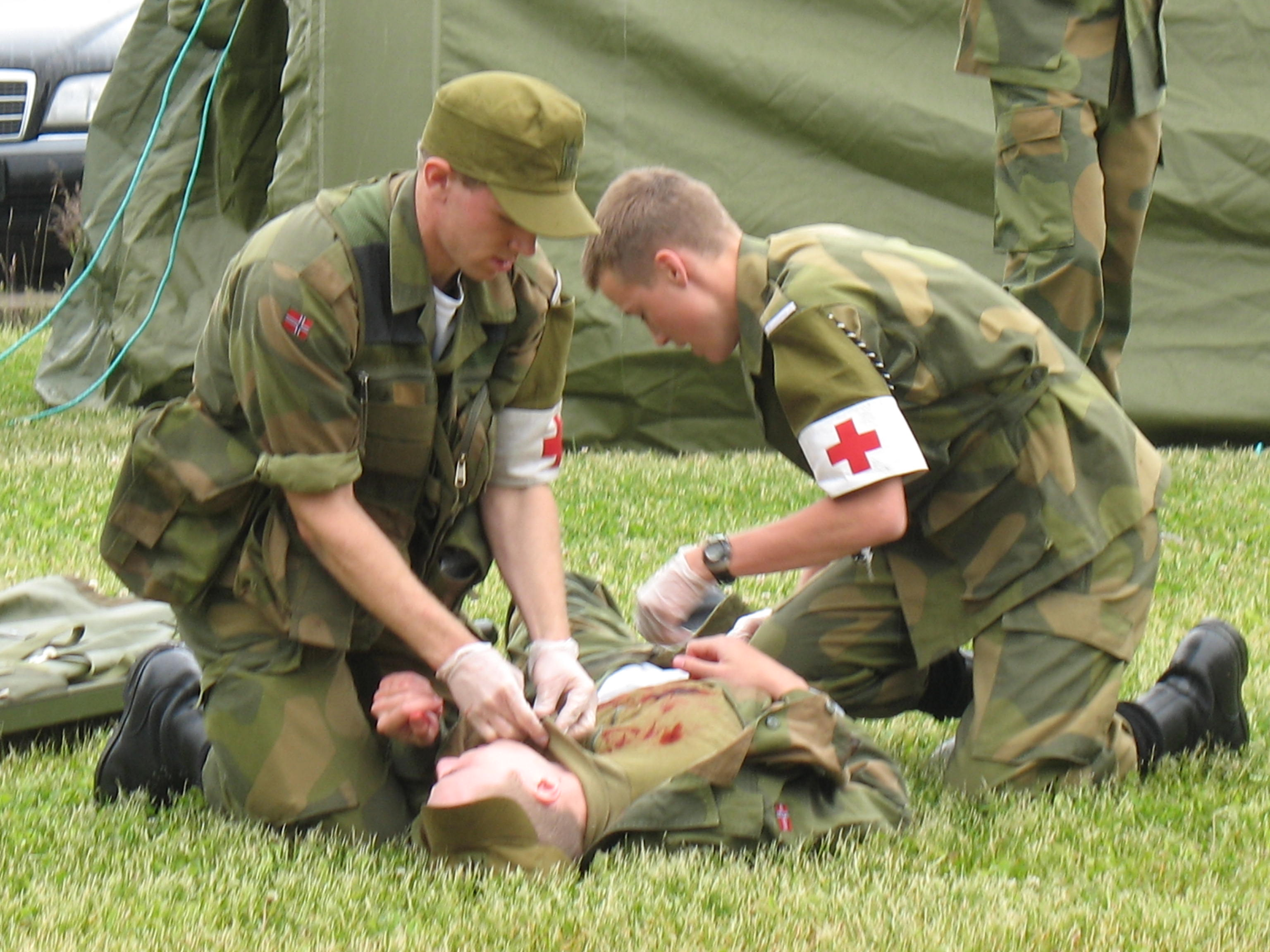 Medics of the Norwegian Royal Guards